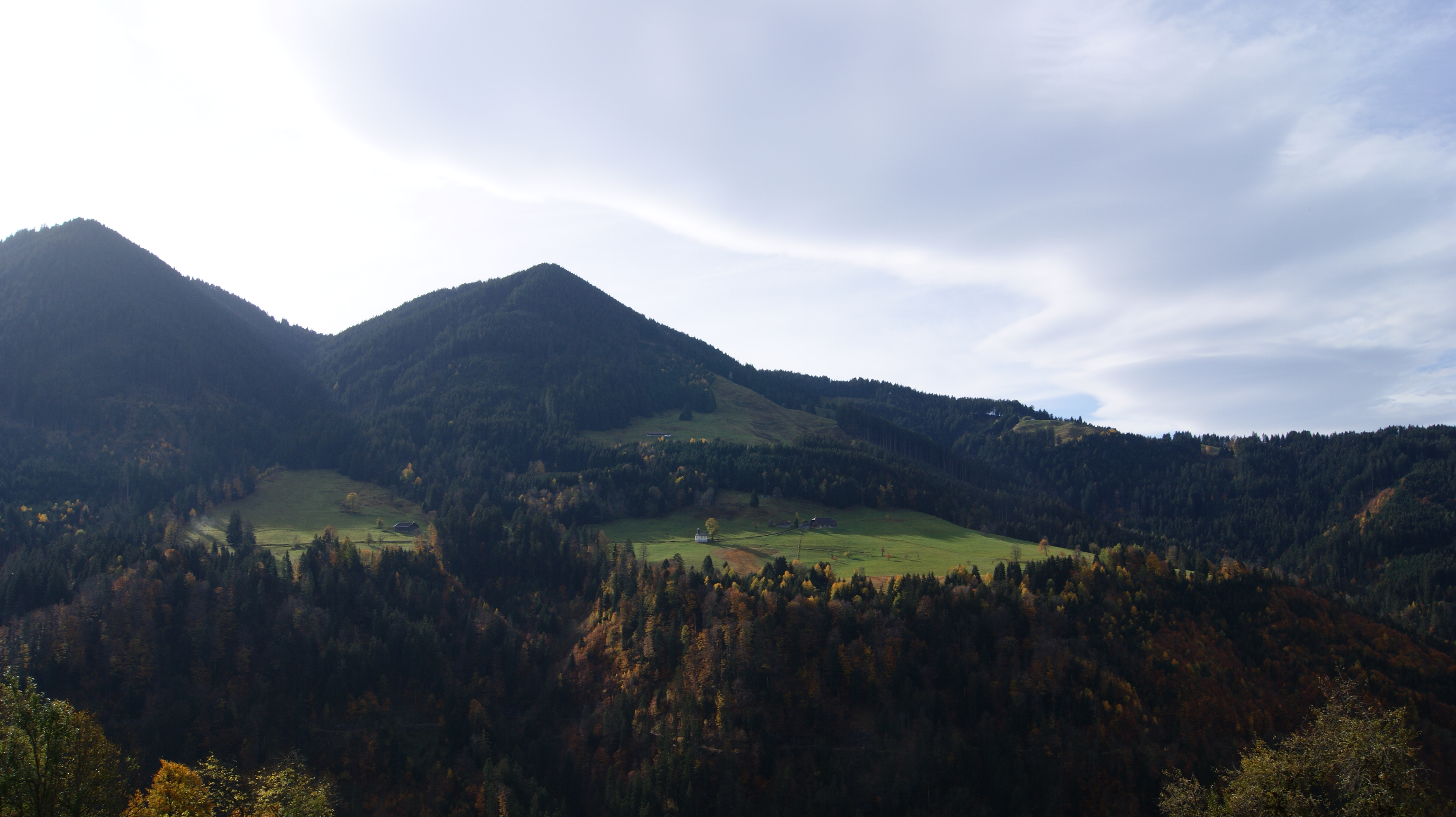 Alpe Wies in the Laternsertal (valley) in Vorarlberg, Austria.